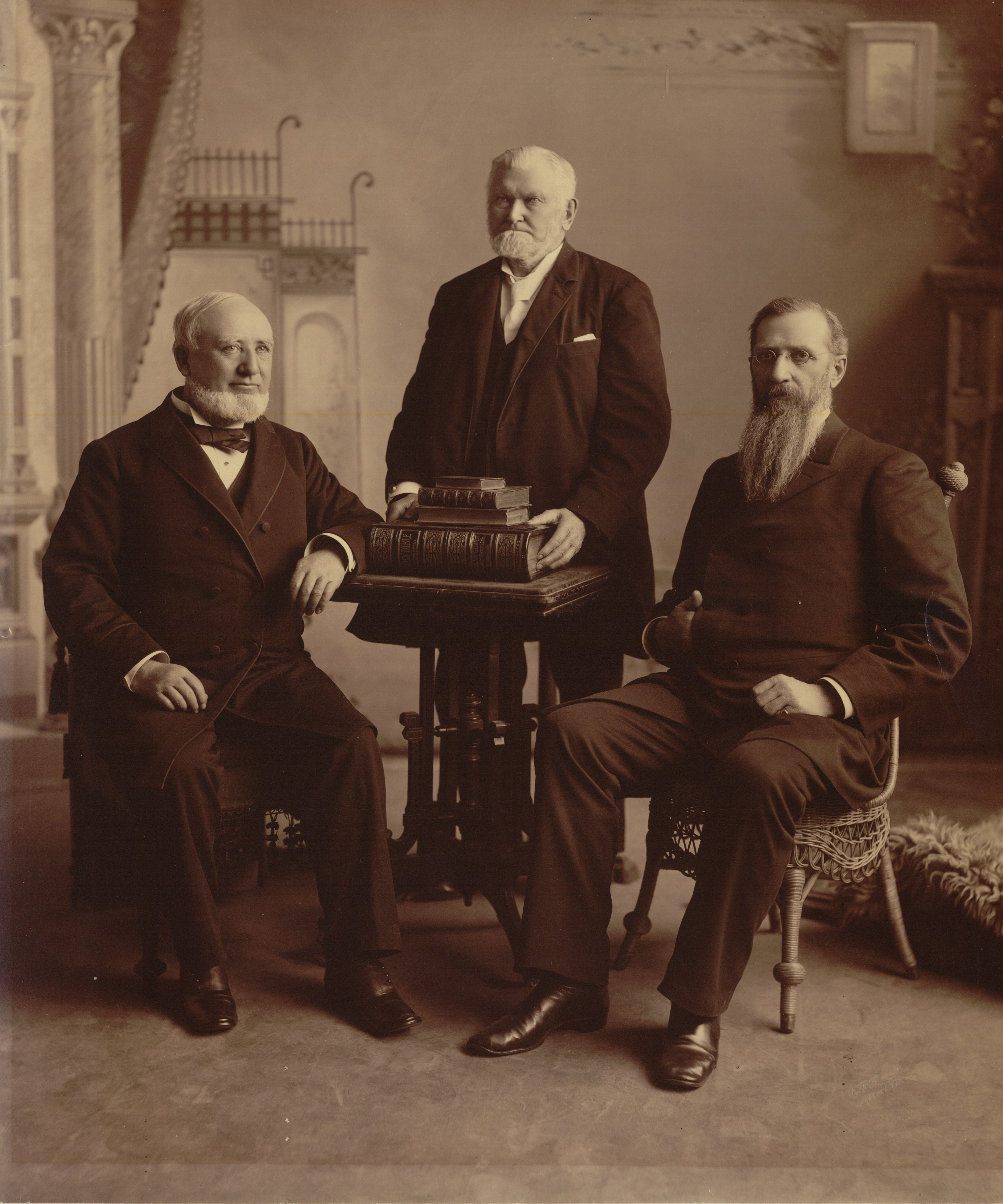 Studio portrait of Wilford Woodruff (standing), George Q. Cannon (seated, left), and Joseph F. Smith (seated, right). Original size: 59×50cm.